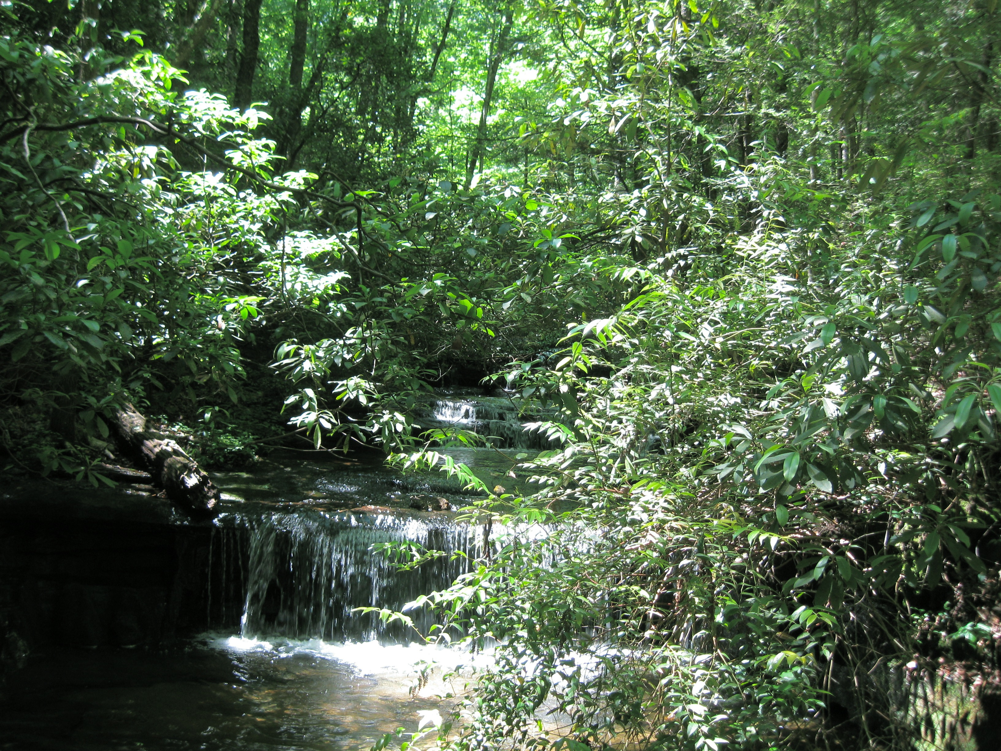 a water fall on Carrick Creek Nature Trail, Table Rock State Park, South Carolina, USA